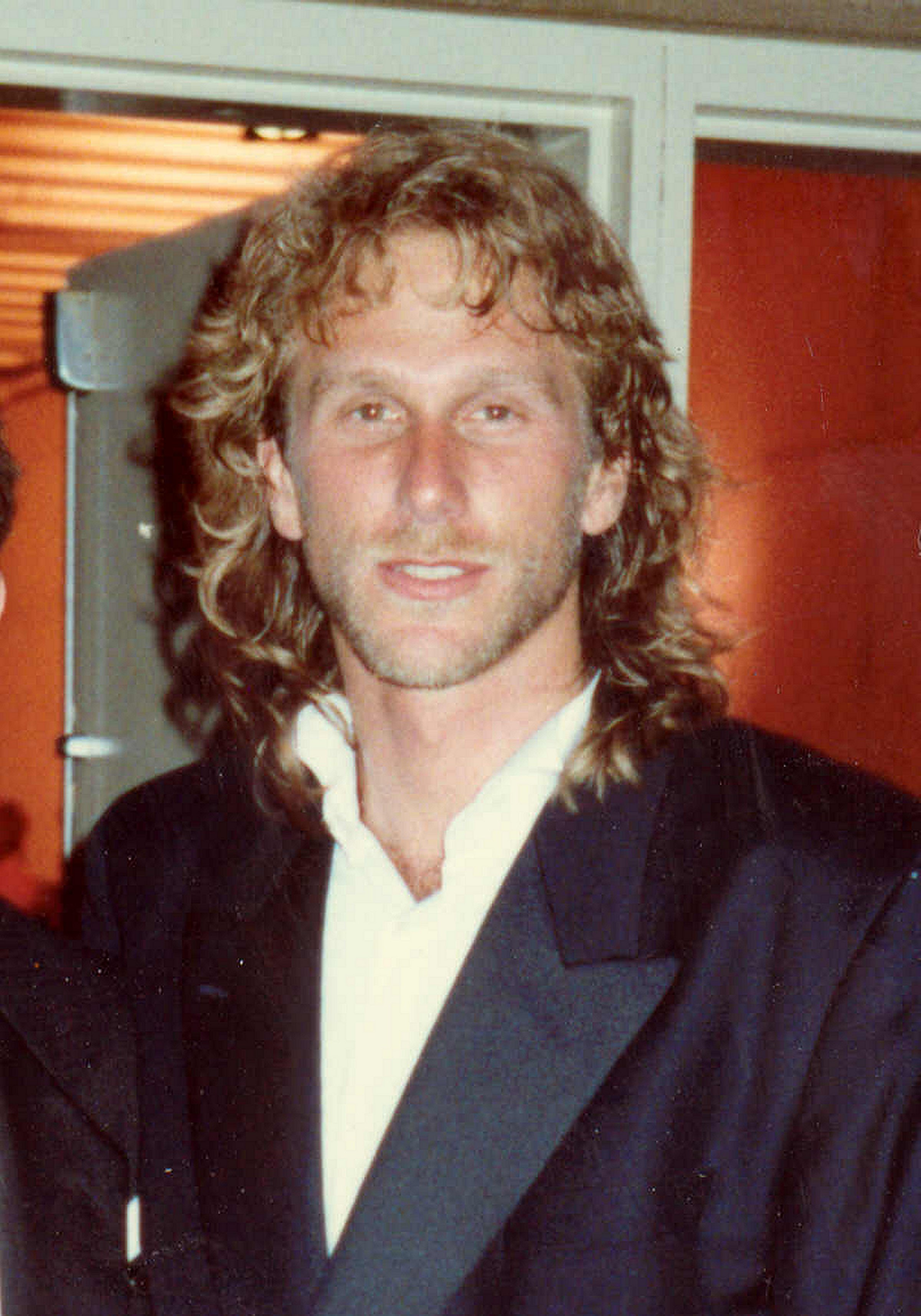 Peter Horton at the Governor's Ball following the 40th Annual Primetime Emmy Awards, 8/28/88 - Permission granted to copy, publish, broadcast or post but please credit "photo by Alan Light" if you can